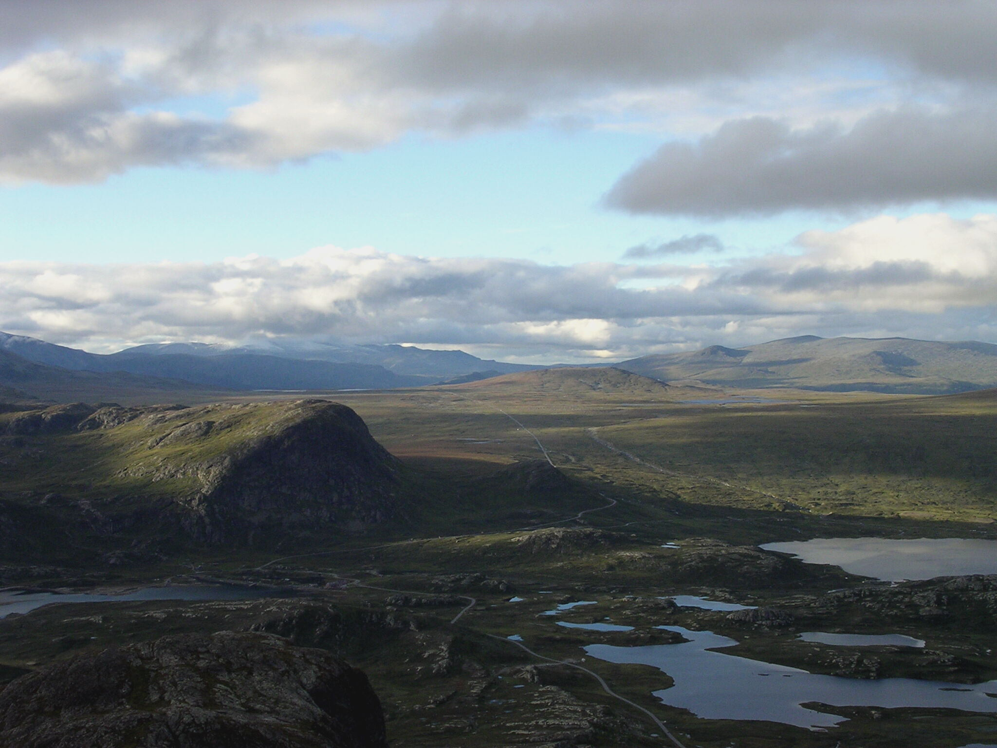 The Norwegian highway 51 over Valdresflya in Jotunheimen, Norway. The picture is taken from the Peak Bitihorn, near Beitostølen.